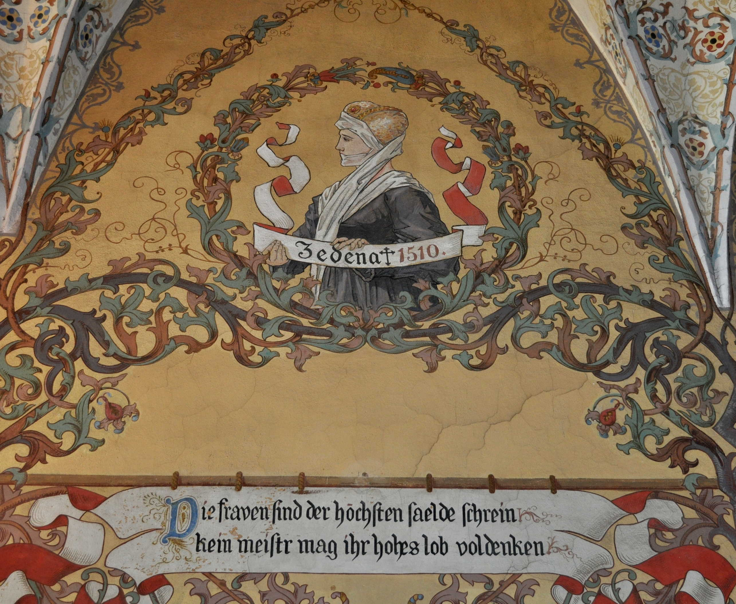 Wall painting of Sidonie of Poděbrady in Albrechtsburg Meißen